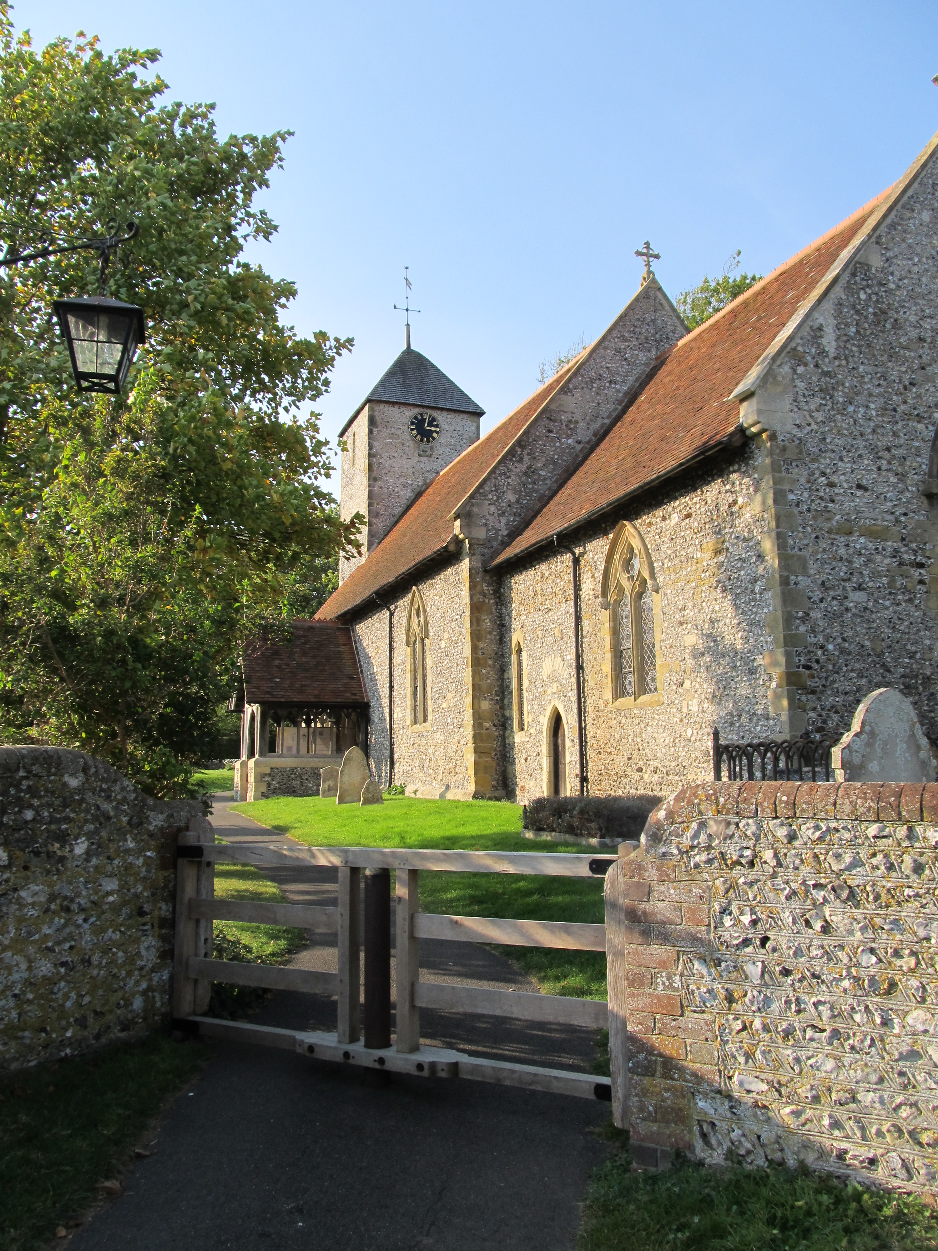 Tapsel gate at St Pancras church, Kingston near Lewes, East Sussex, England.